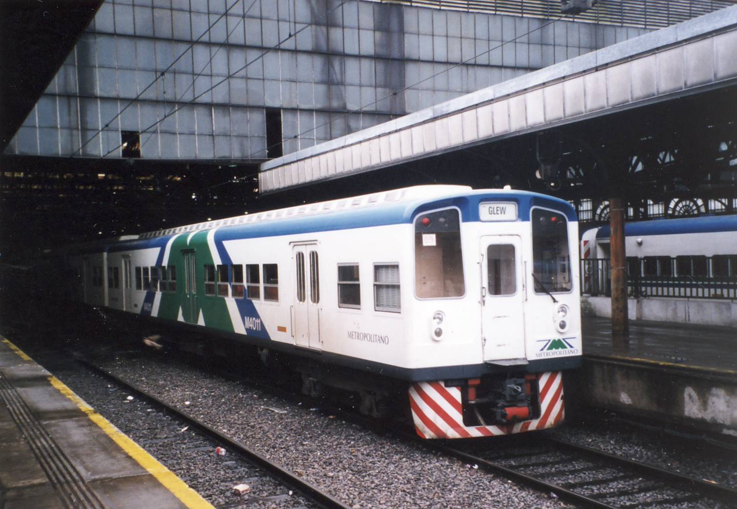 At Constitución railway station in Buenos Aires, Argentina.